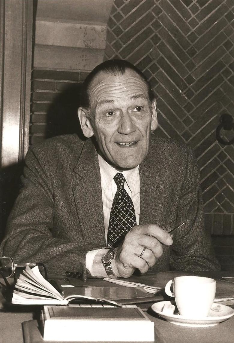 Aris J.M. Derksen, Dutch politician